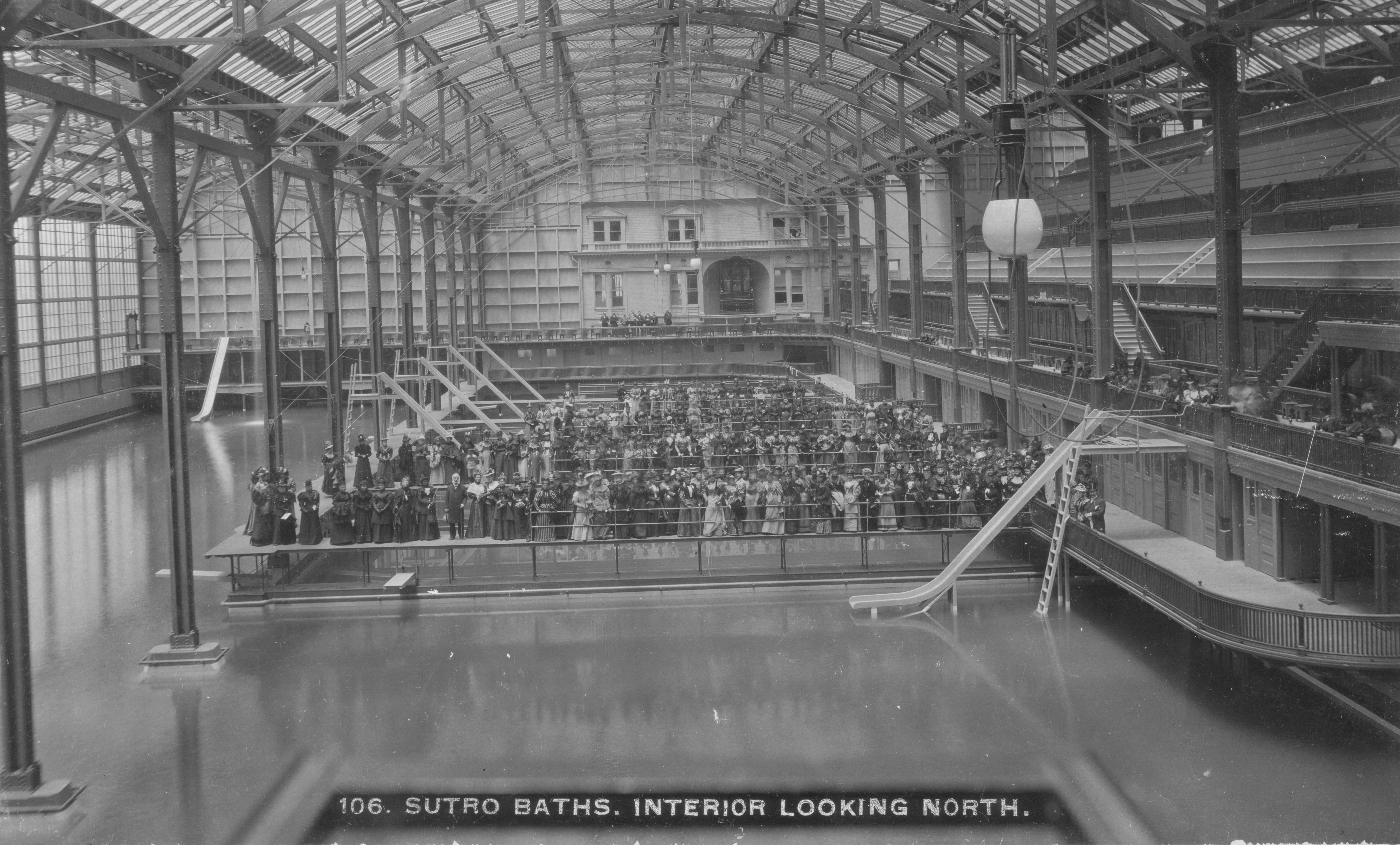 This is an old image of the Sutro Baths from when they were still standing. Adolph Sutro & Ladies of National Medical Convention, June 8, 1894